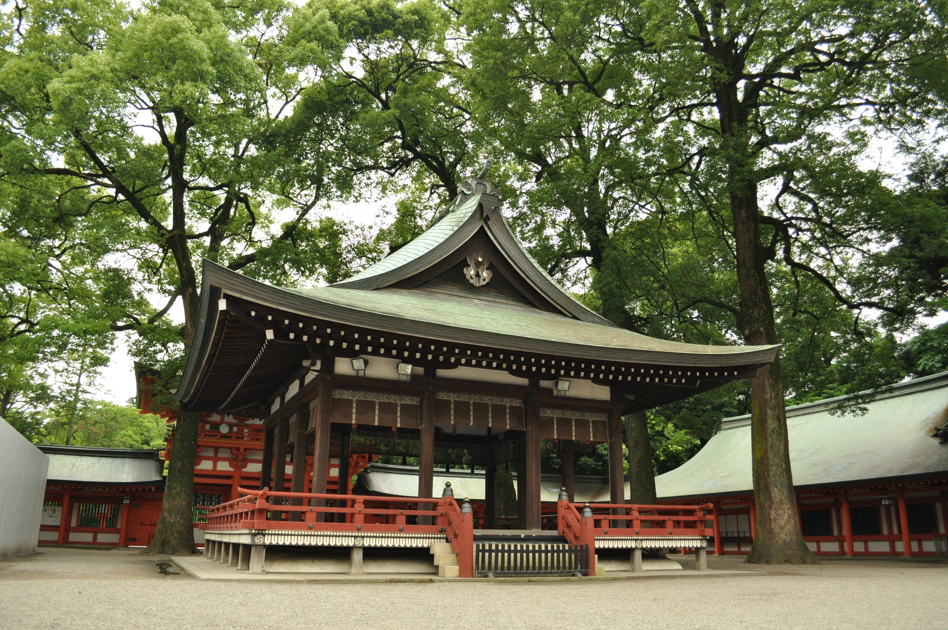 Boards of the Hikawa shrine